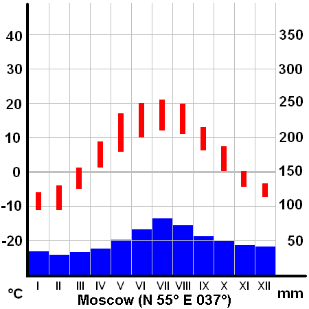 Climate diagram of Moscow, Russia max. and min. temperature and total precipitations per month drawn by Miaow Miaow, March 2005